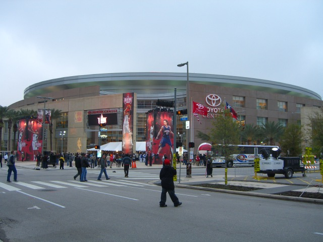 Nick Juhasz created Category:Images of Houston, Texas